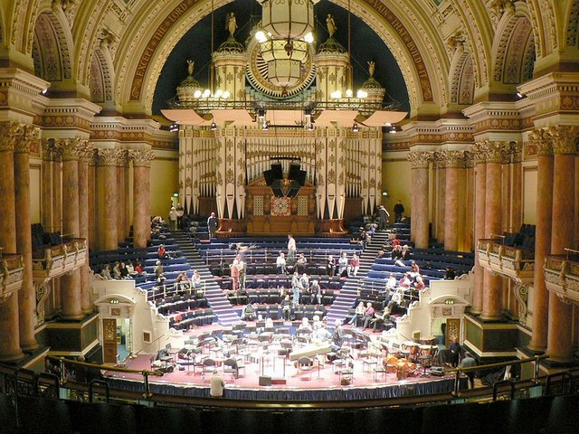 Victoria Hall, Leeds Town Hall Victoria Hall in Leeds Town Hall is the city's main concert hall. This is a view from the back of the gallery towards the stage, including some members of Leeds Festival Chorus and The Northern Sinfonia, during a break in rehearsal for a performance of Haydn's Creation. The hall is named after Queen Victoria who opened it in 1858 (the building also has the Albert Room), and was designed by Cuthbert Brodrick. See also 271918